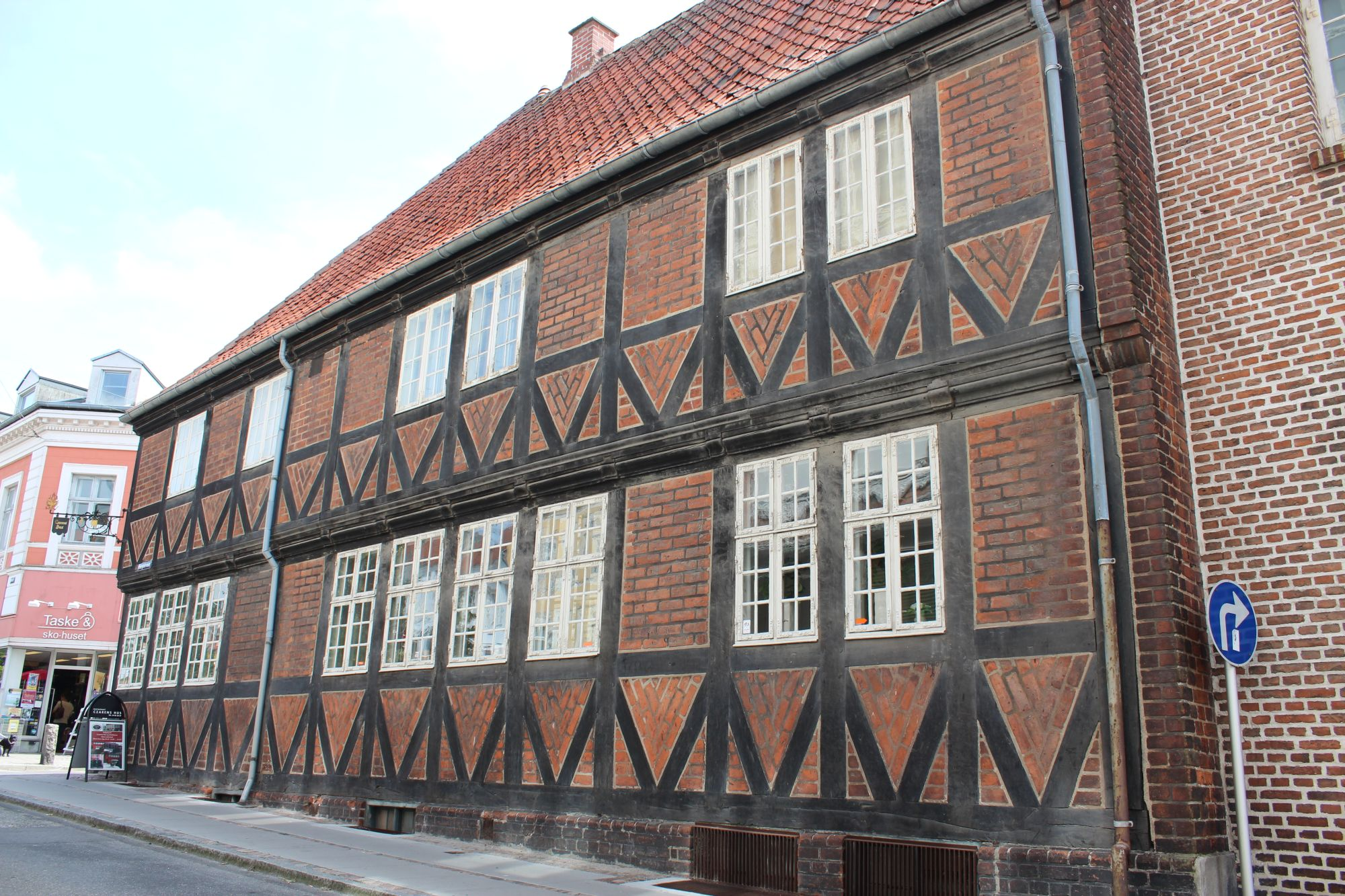 Czarens Hus in Nykøbing Falster, Denmark.